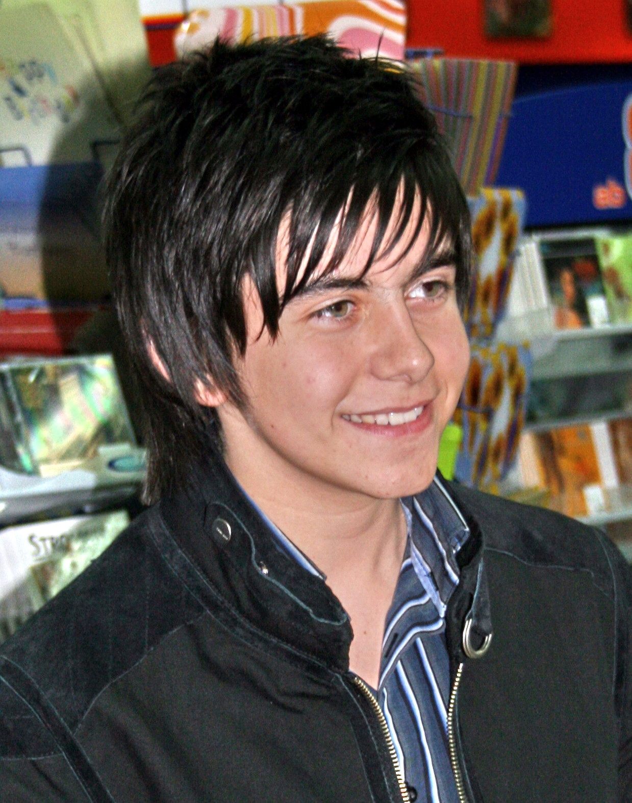 Declan Galbraith at a autograph hour